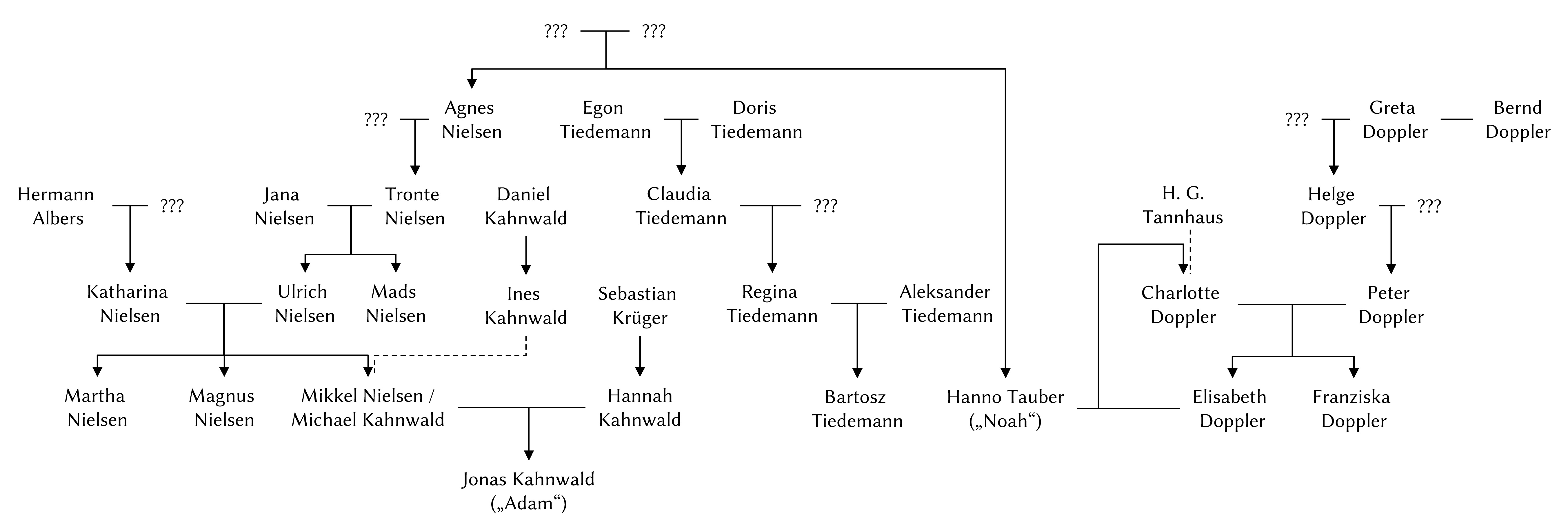 Netflix series Dark: Family tree of the four main families Doppler, Tiedemann, Kahnwald and Nielsen at the end of the second season